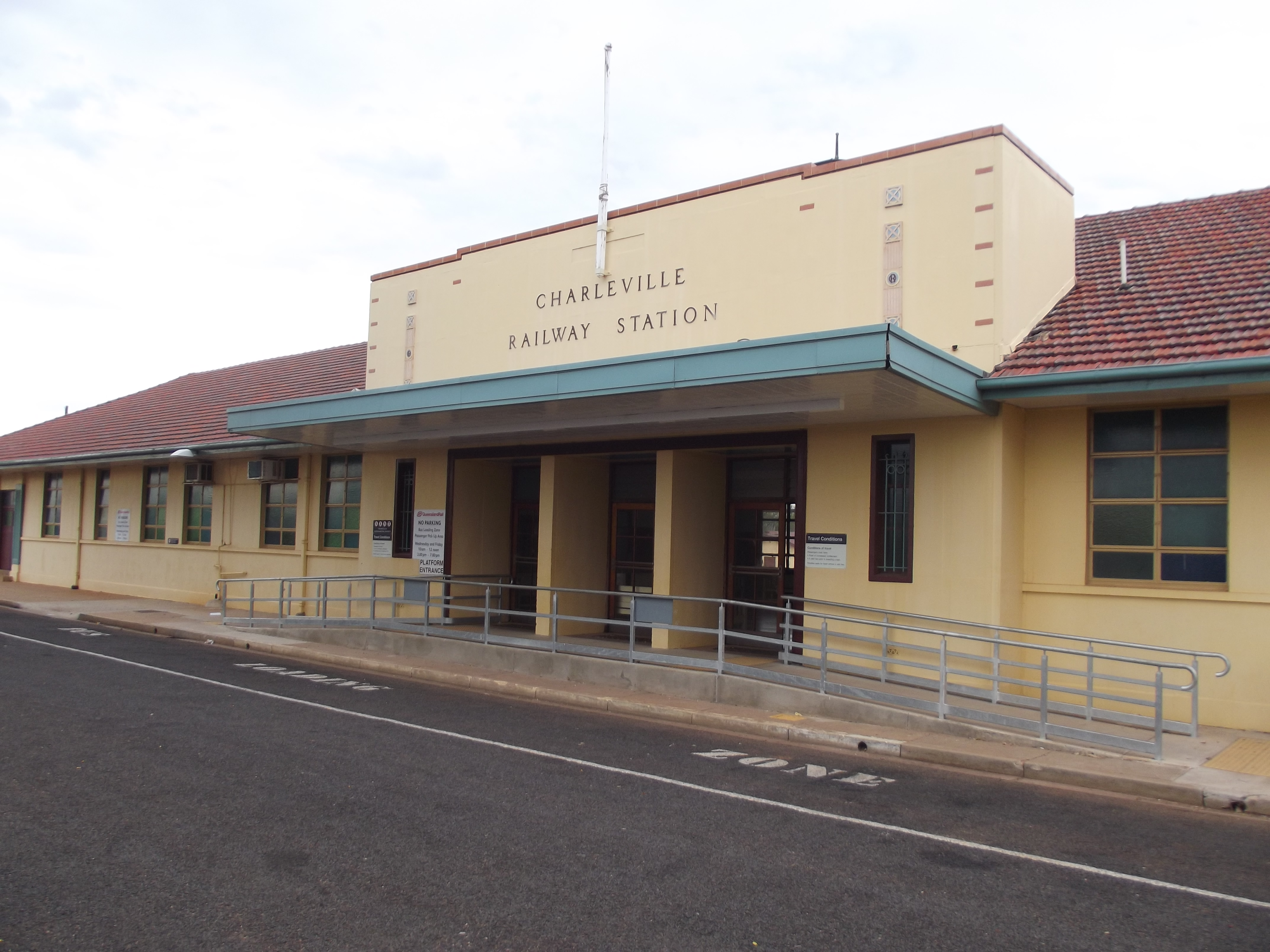 Charleville station, the terminus of The Westlander service.